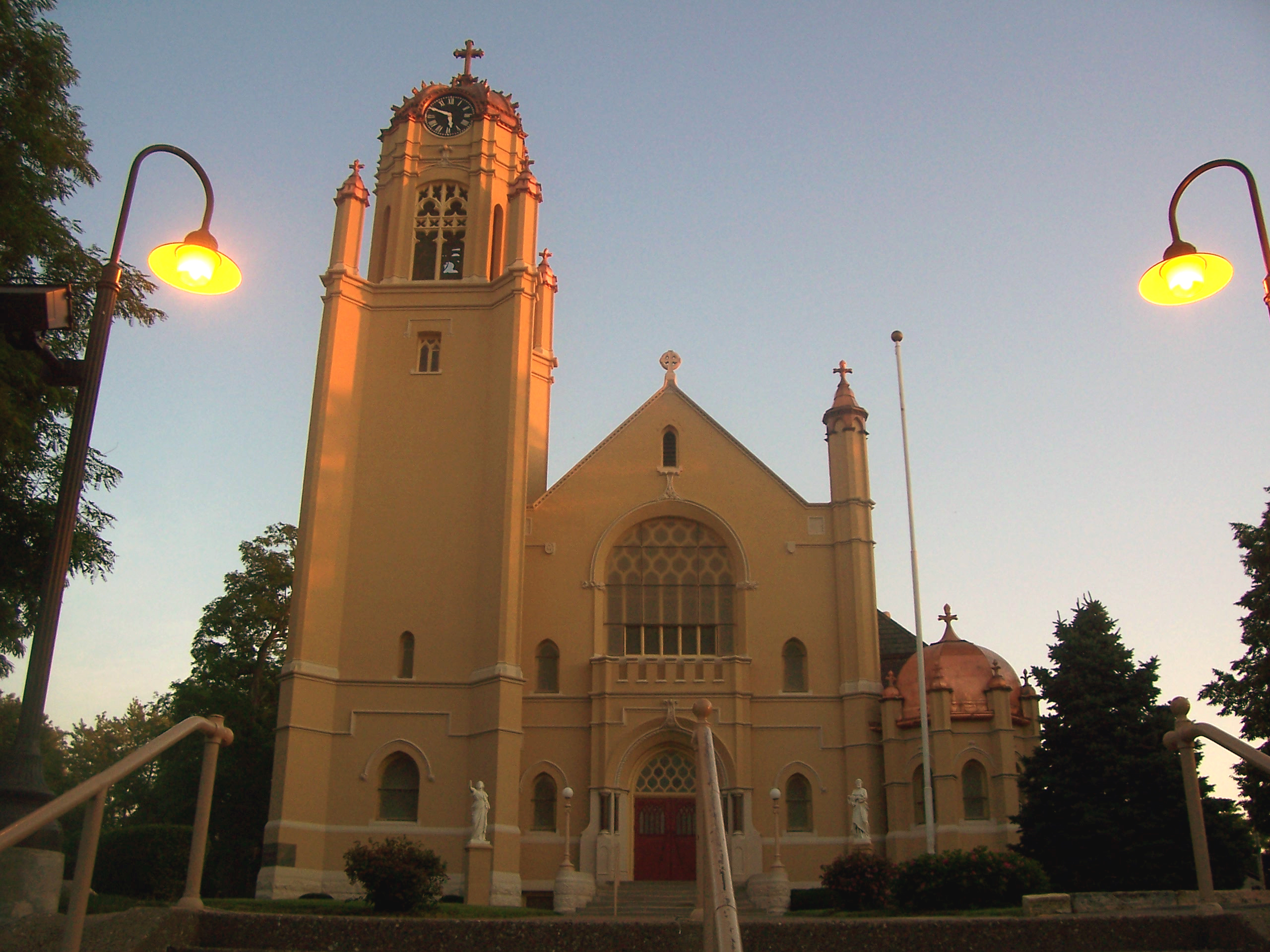 St. Mathias Catholic Church in Muscatine, Iowa.